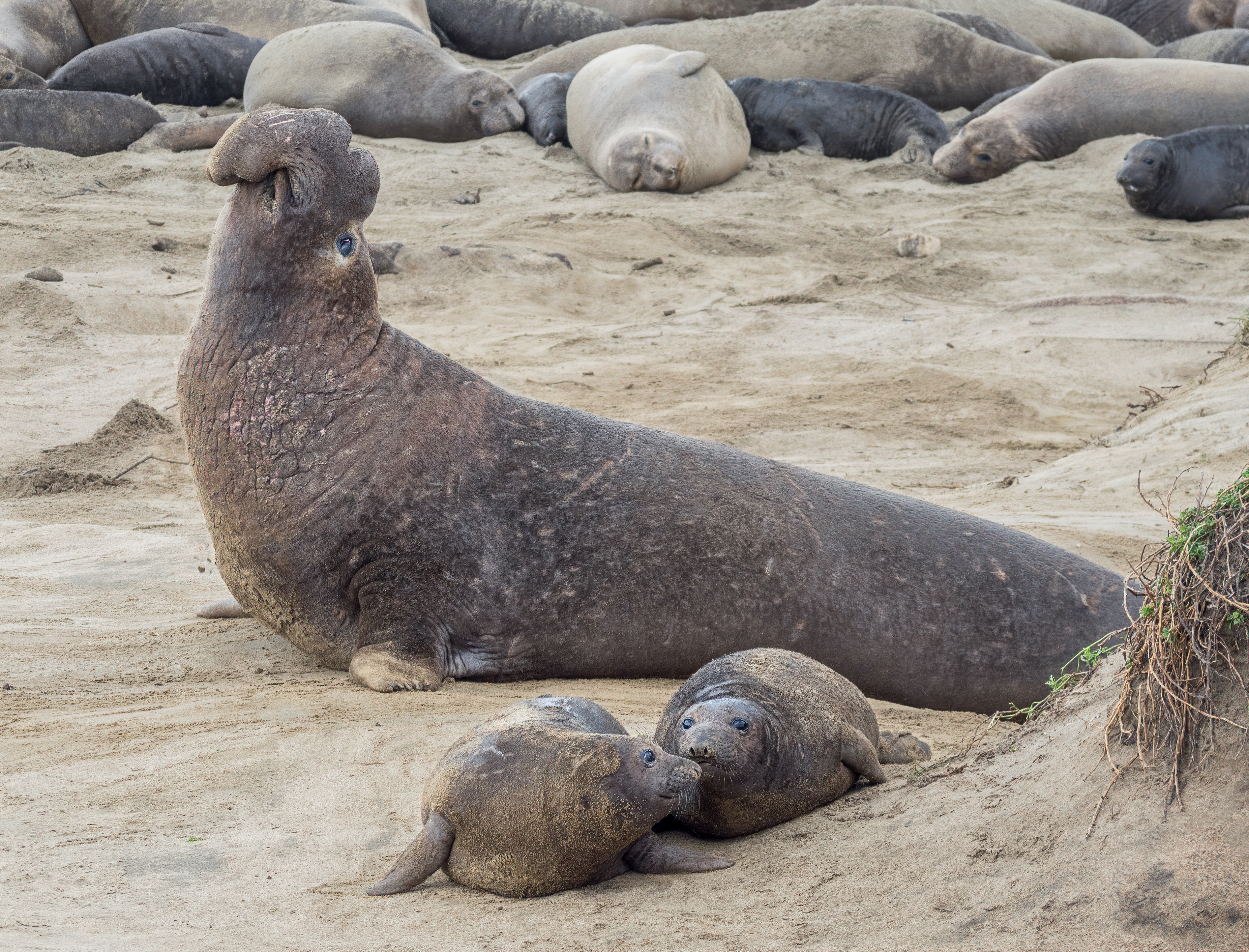 A male northern elephant seal (Mirounga angustirostris) with two pups at Ano Nuevo State Park